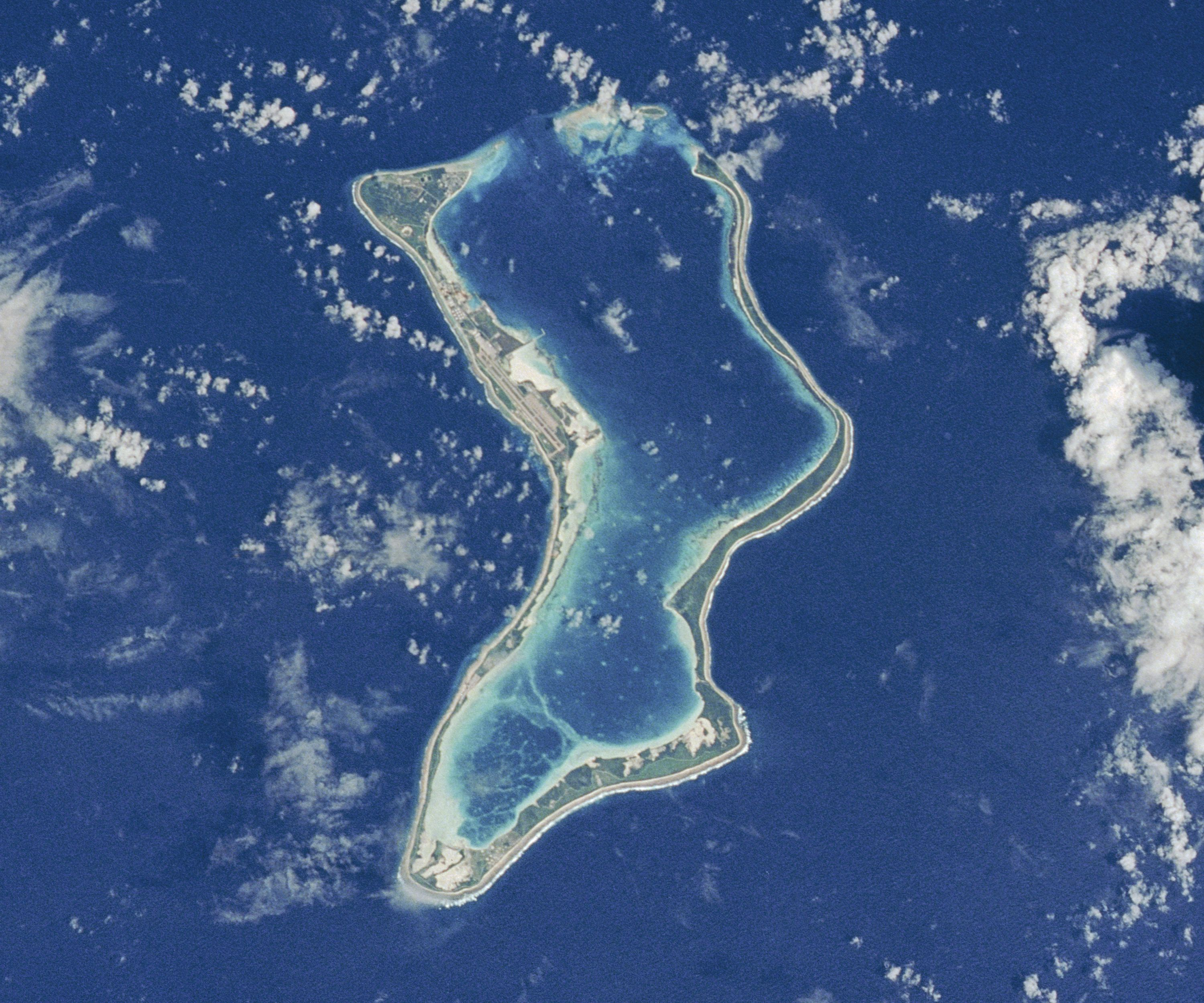 NASA image of Diego Garcia atoll (BIOT) in the Indian Ocean